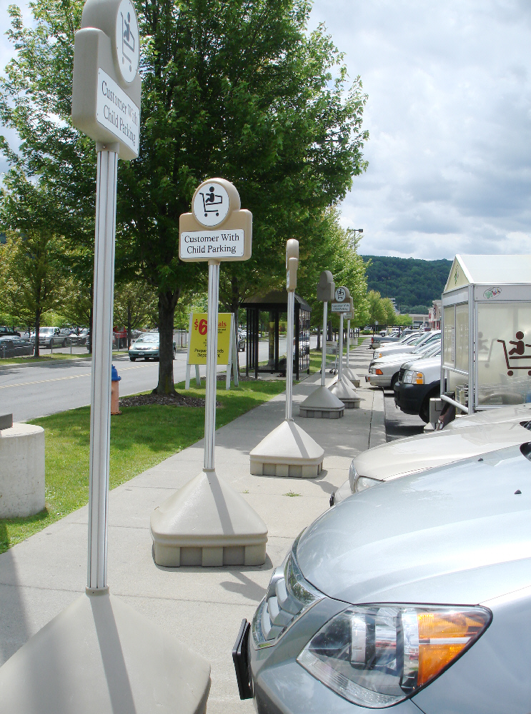 Customer with child parking, on a supermarket parking lot in the United States